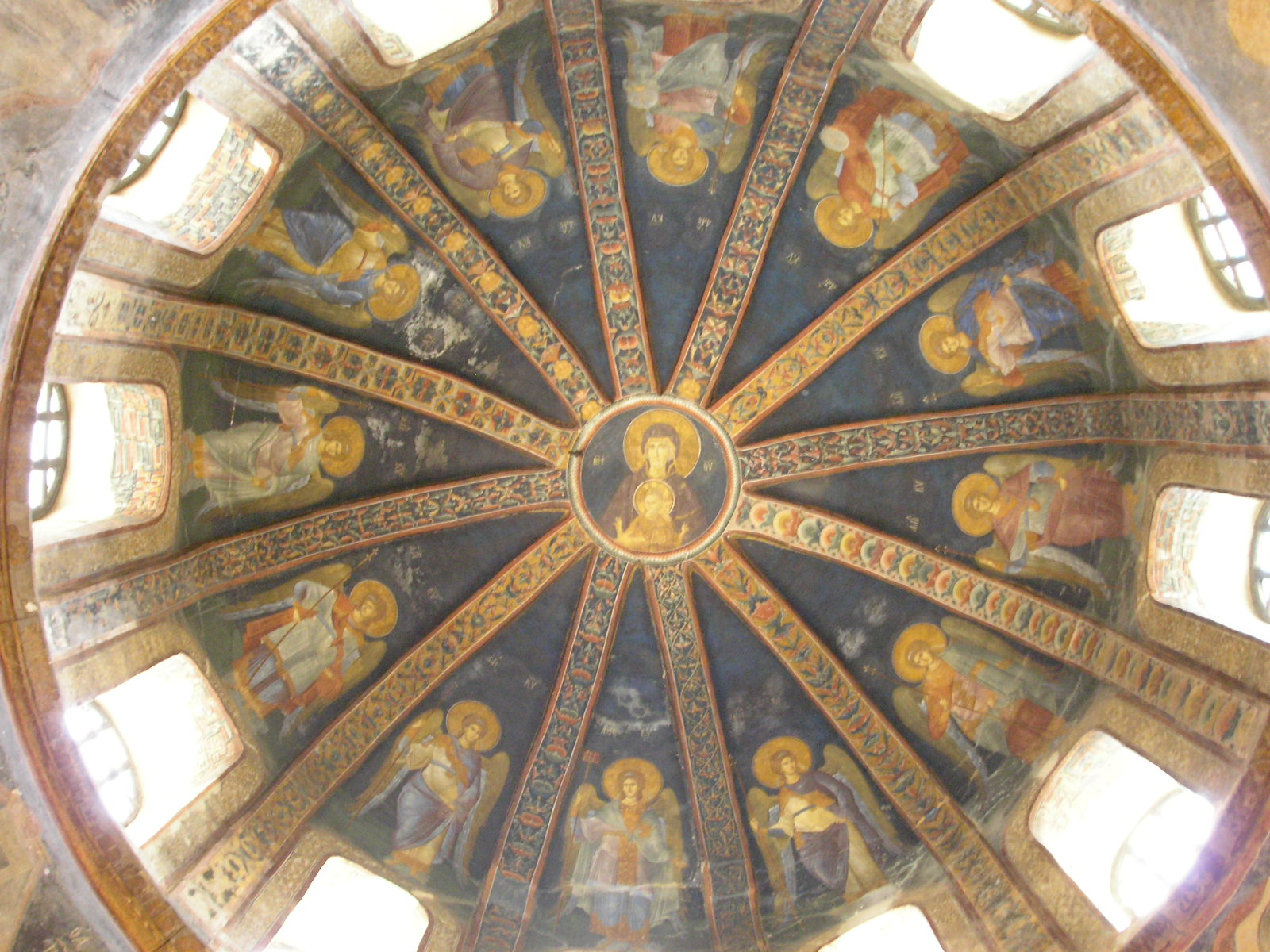 Interior view of Chora Church in Istanbul.